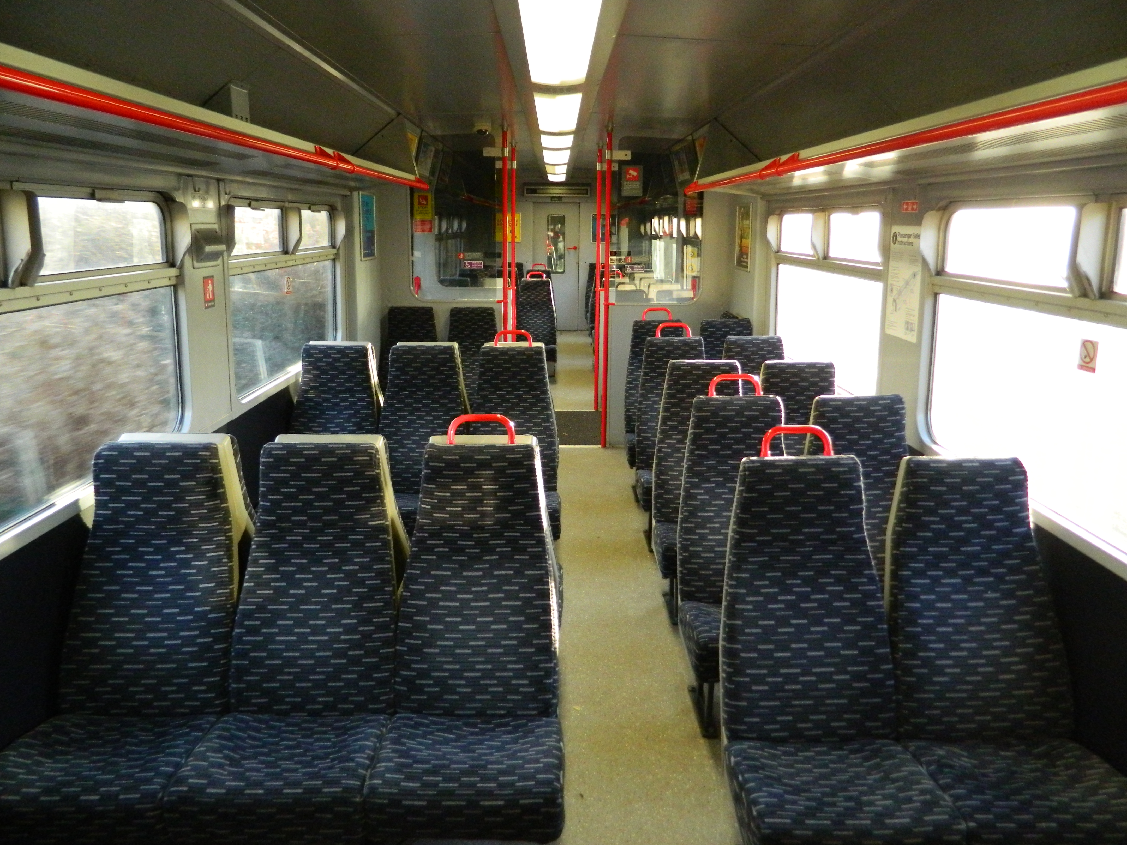 The Standard Class interior aboard a Greater Anglia Class 321.